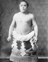 Miyagiyama Fukumatsu, the 29th Yokozuna